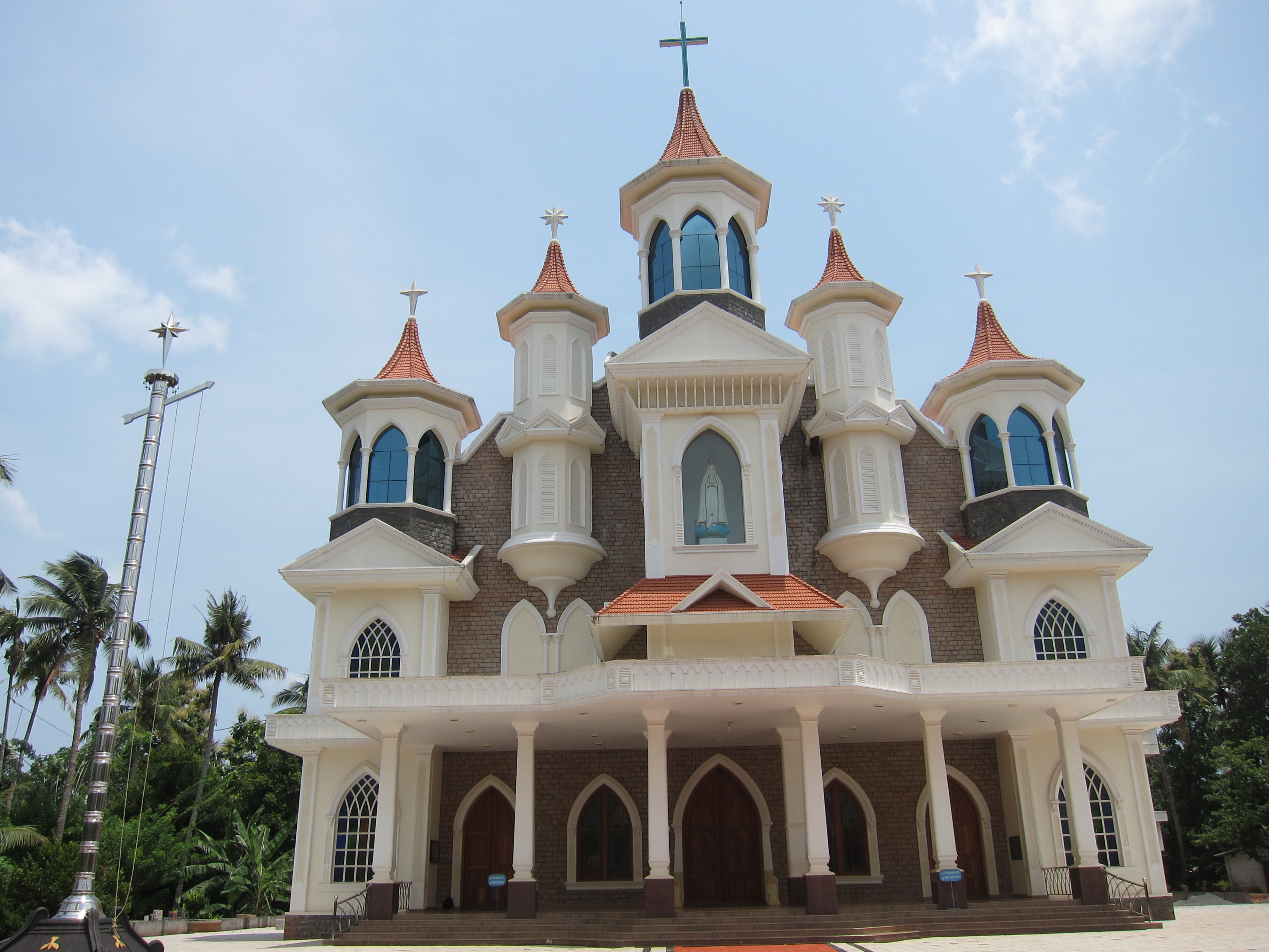 Kottanellur Fatimamatha Church Velukkara Panchayat Thrissur District Irinjalakuda Diocese Thrissur Arch-Diocese Roman Catholic Syro Malabar 7 km away from Irinjalakuda. 16 km away from Chalakudy